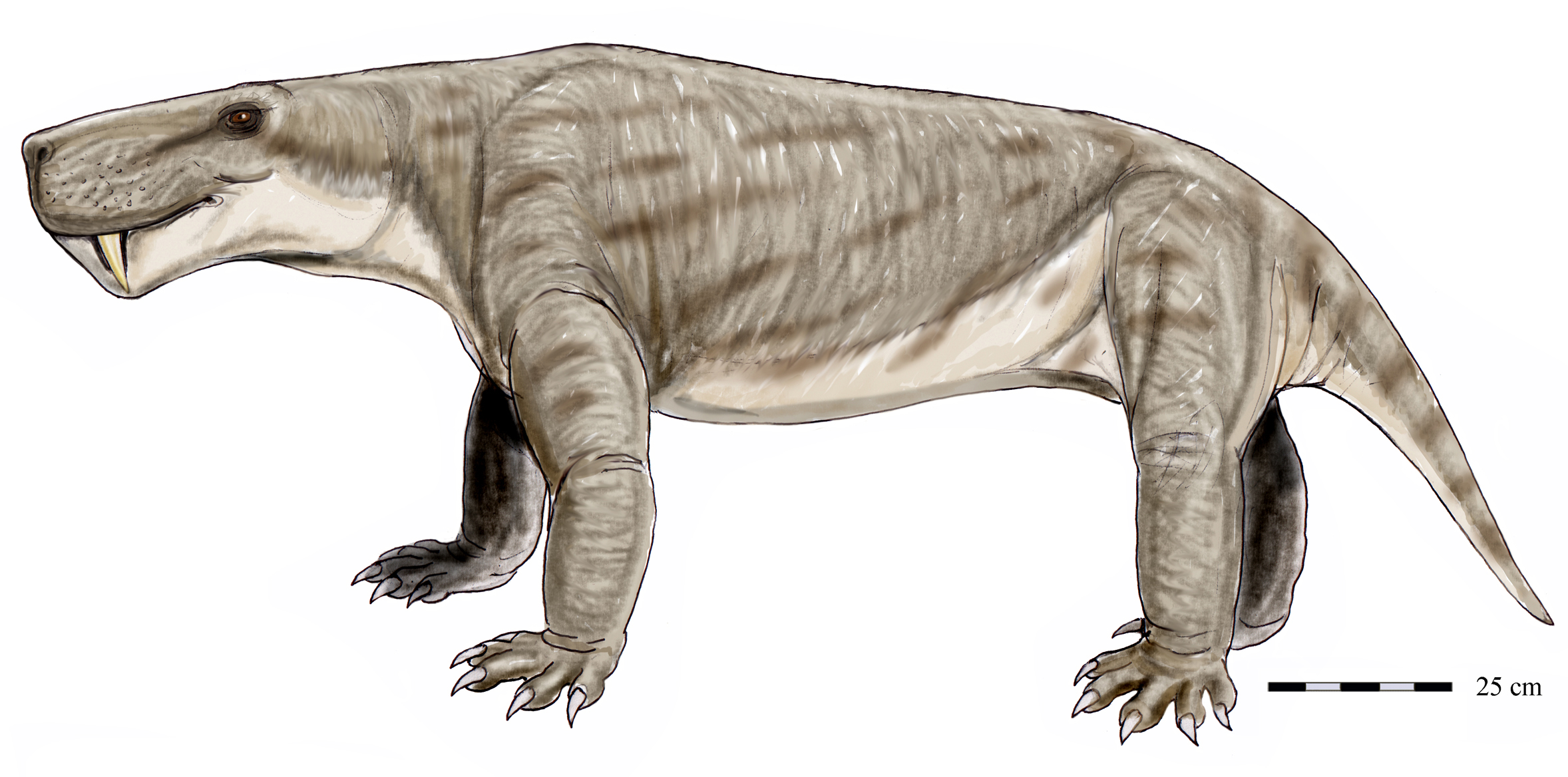 Sycosaurus nowaki (formerly Leontocephalus intactus), rubidgeid gorogonopsian from Late Permian of Tanzania